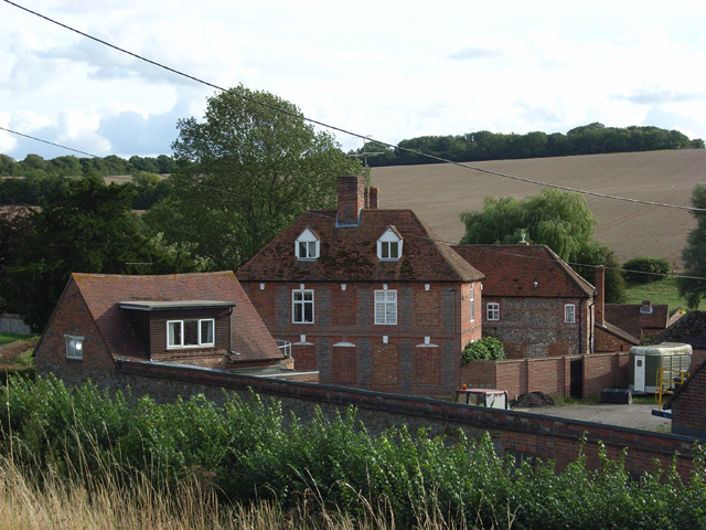 Bockhampton Manor. Evidence of the window tax.